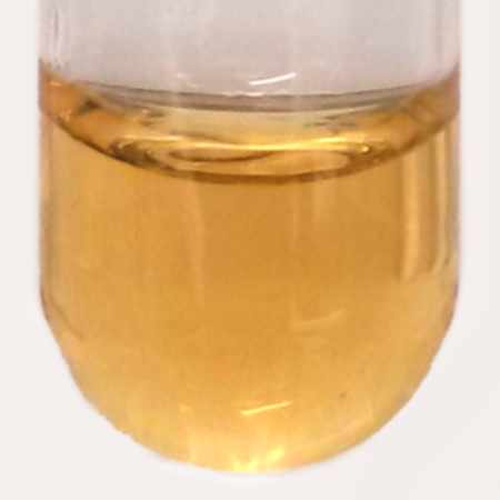 Near neutral water solution of pure azo violet (AKA Magneson I, C12H9N3O4).